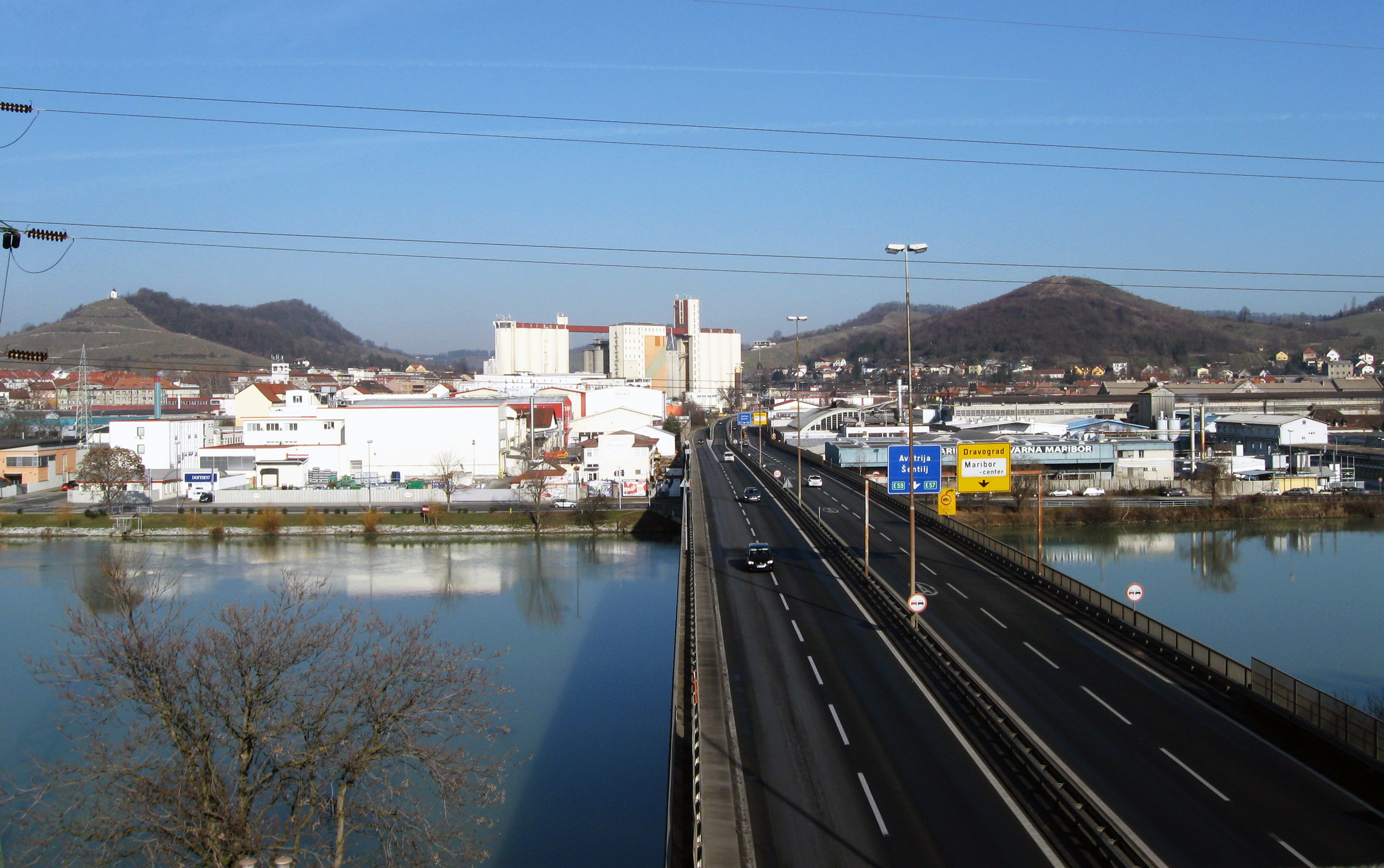 This is the upper level of the bi-level Melje Bridge over Drava River in Maribor, Slovenia.